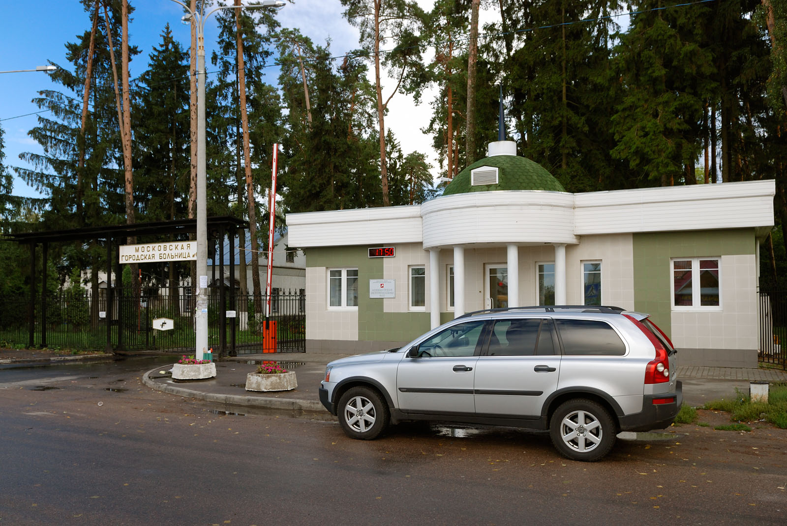 Entrance to Stepanovskoye country estate